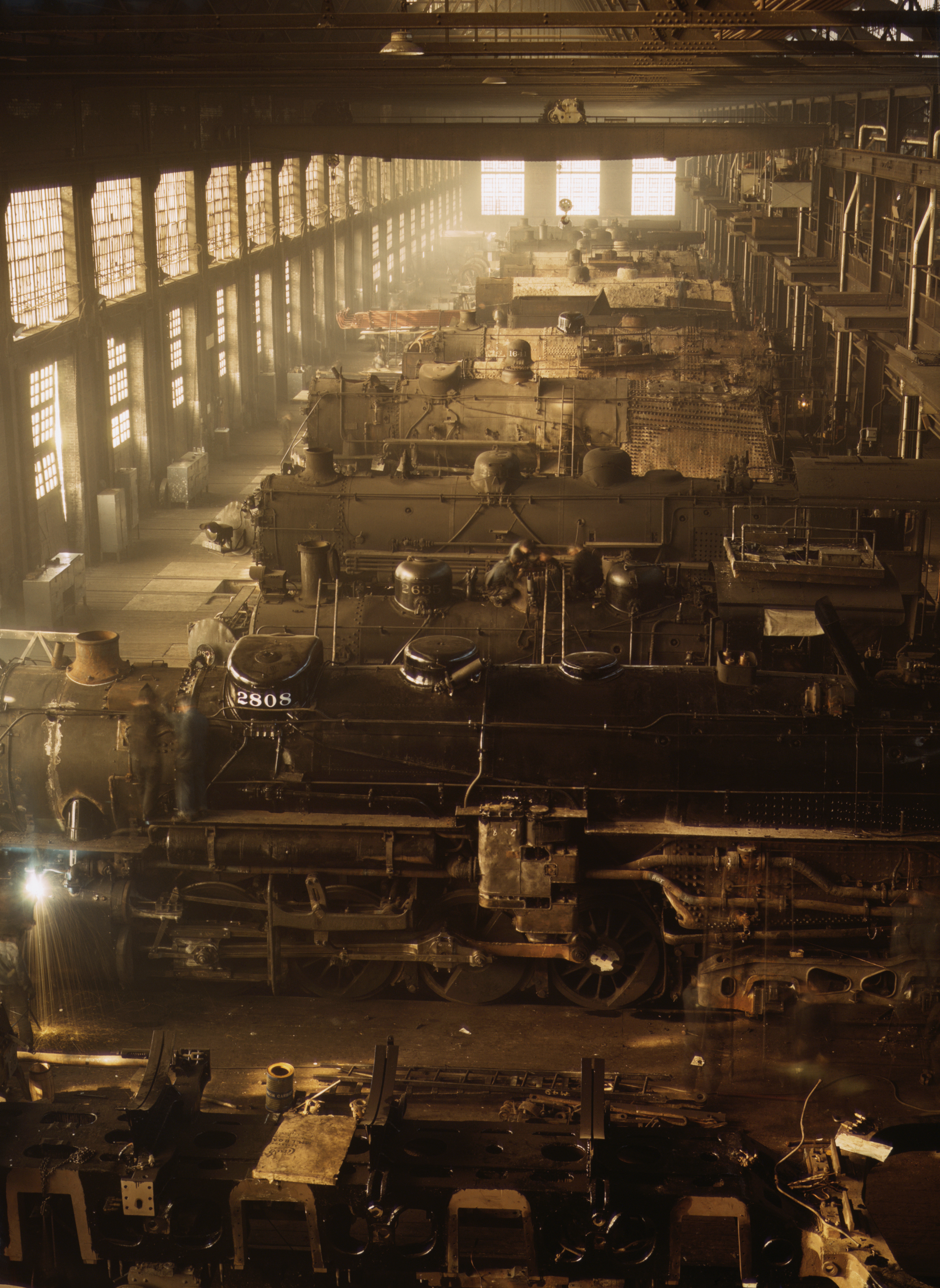 Chicago and North Western Railway locomotive shops, Chicago, Illinois (United States of America).